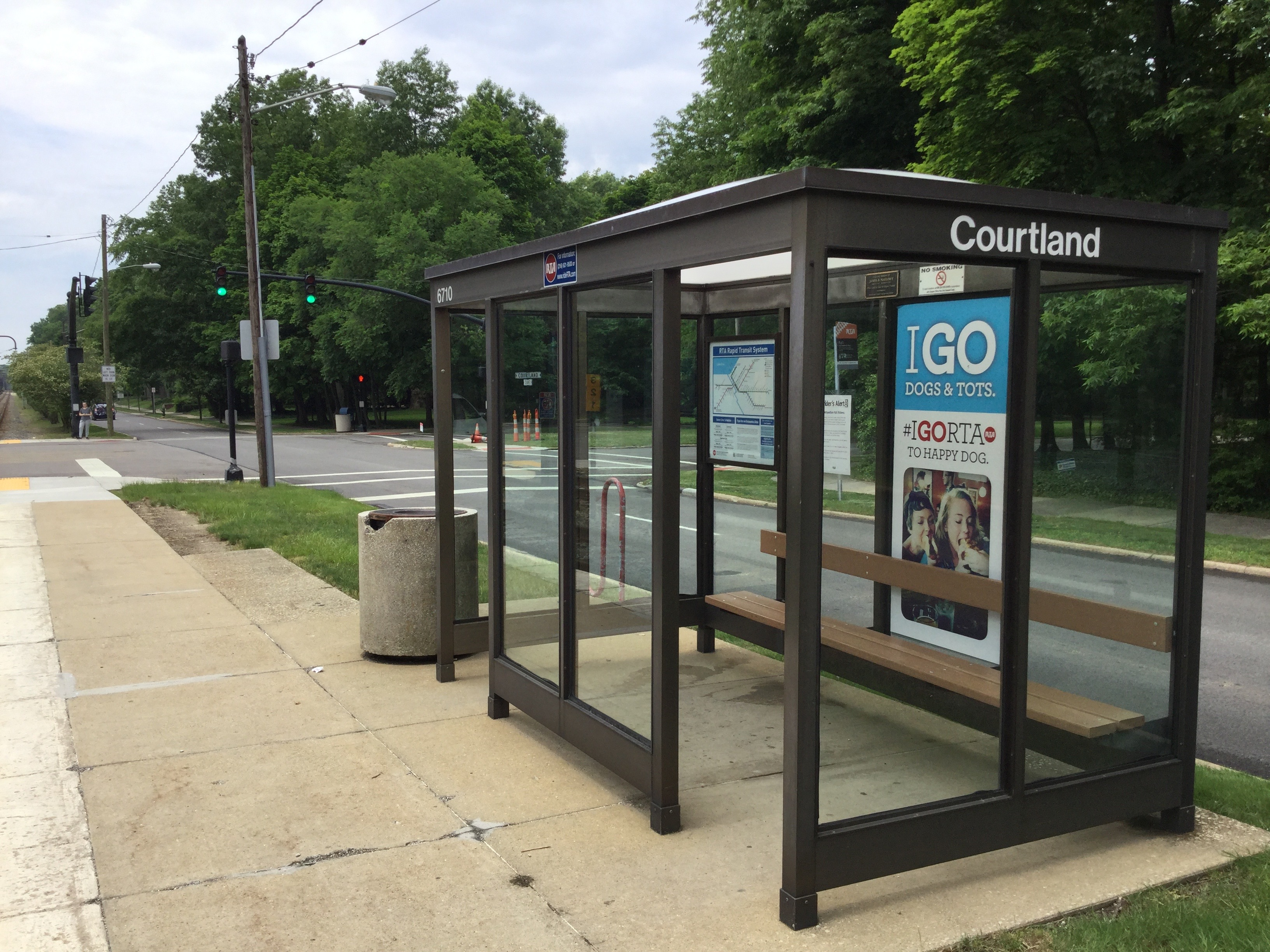 RTA station